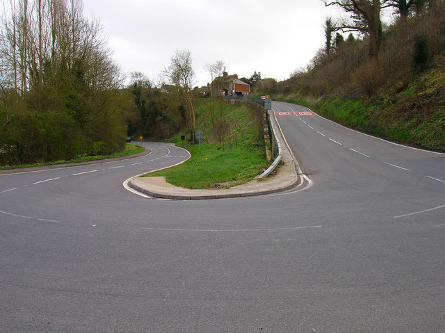 Hairpin Bend, A259 Tanyard Lane to the left, Ferry Hill to the right. Pipewell Gate can just be seen at the top of the latter and was the route down onto Brede Level. Tanyard Lane was a minor road until the A259 needed to bypass the town centre.